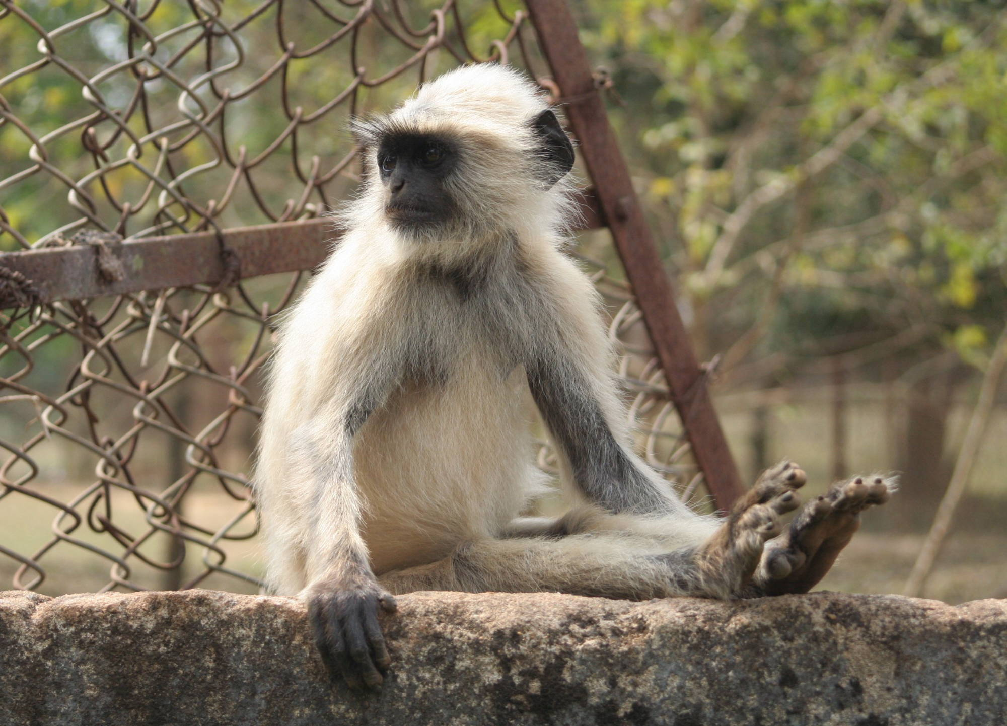 Langur in the Zoo of Bhubaneshwar (Orissa-India)